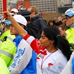 Amara Karan captured during Olympic Torch Relay in London 2008